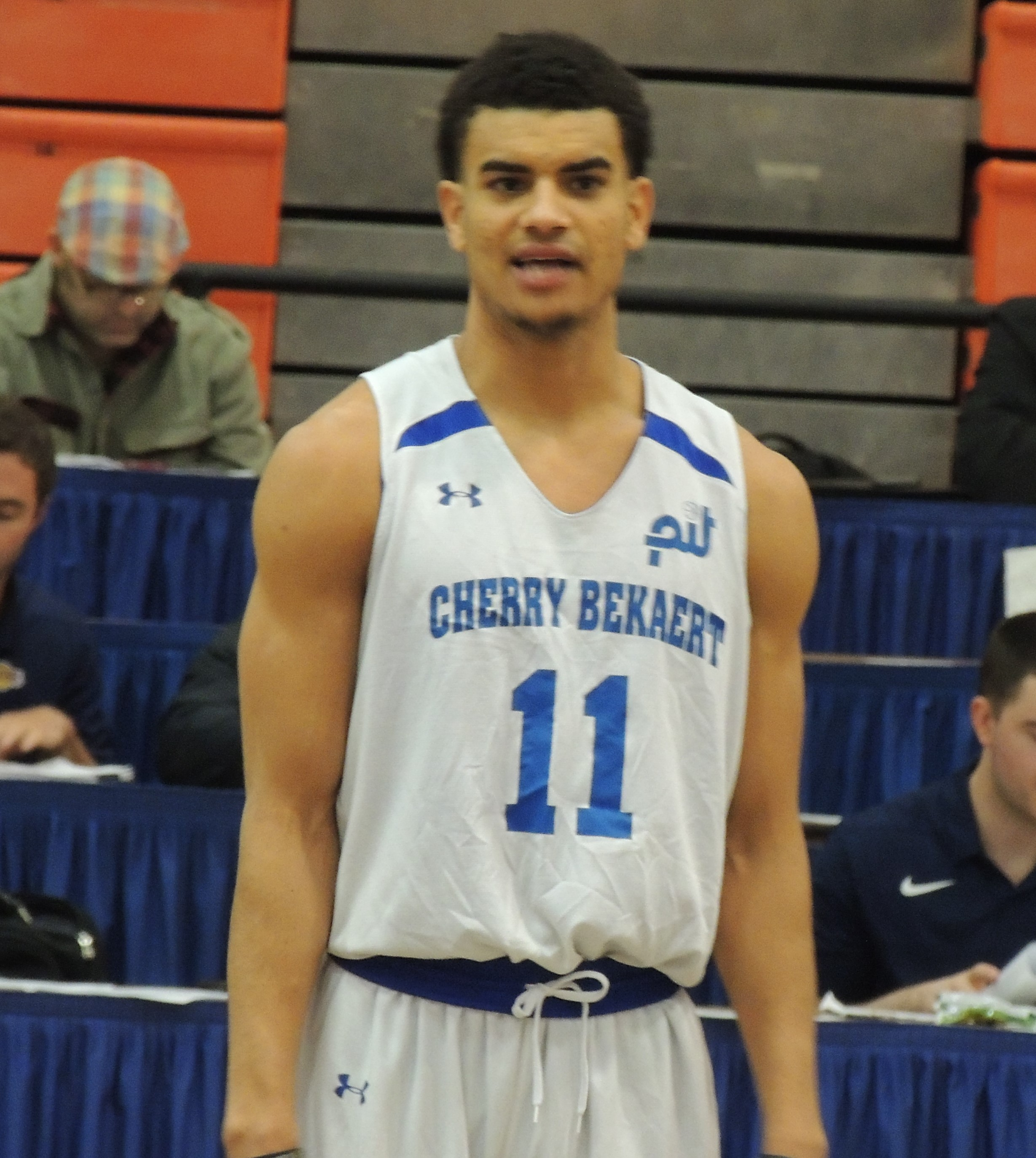 American basketball player Justin James of the University of Wyoming at the 2019 Portsmouth Invitational Tournament.